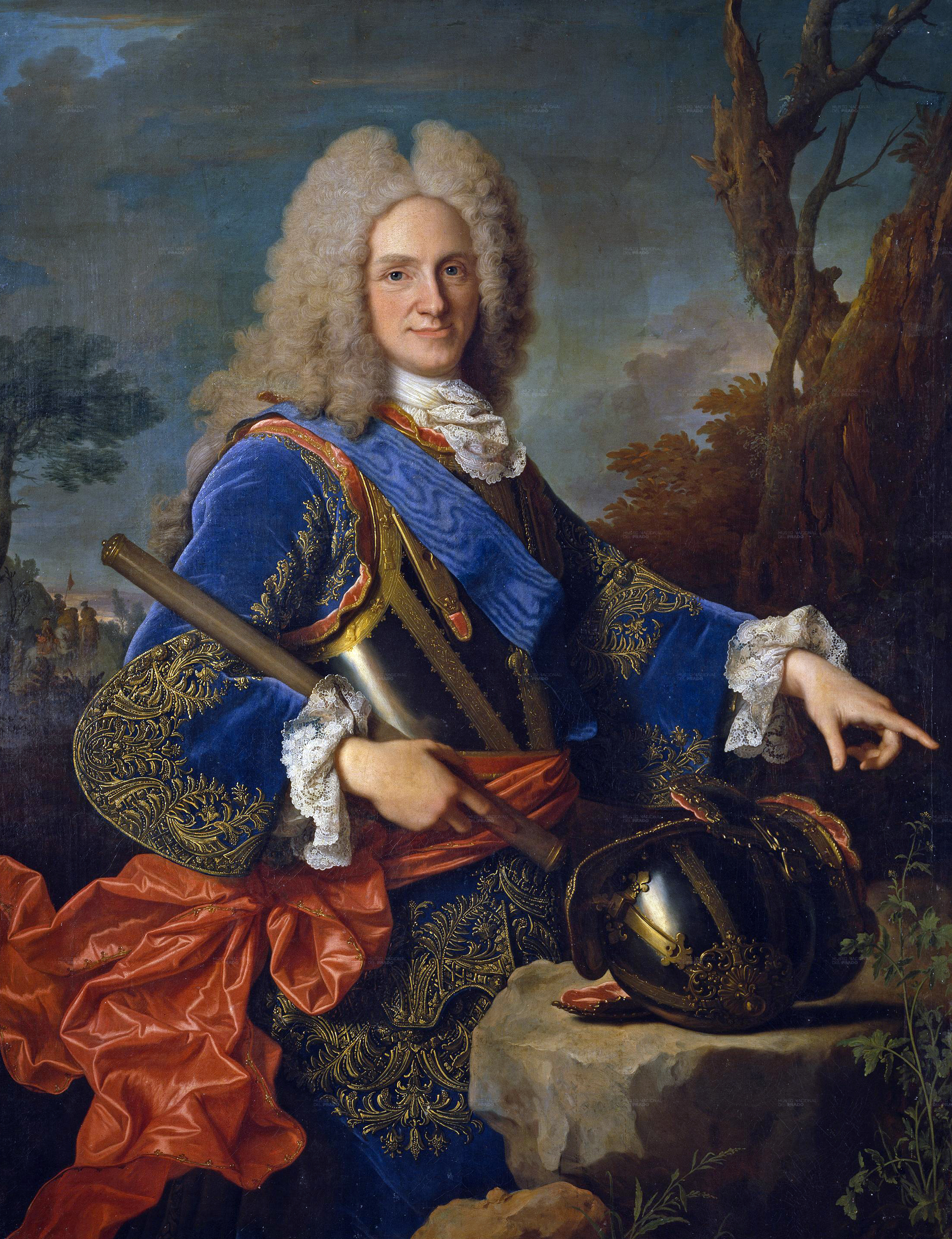 This is an official portrait of Felipe V (1683-1746), the first Bourbon king of Spain. The grandson of Louis XIV (1638-1715) of France, he was born in Versailles and was proclaimed King of Spain in 1700. Married two times, he had numerous children and died in Madrid in 1746. The king wears armor and carries a ruler's staff. A warrior's helmet rests on a stone in front of him. Along with the sumptuous embroidered frock coat and red girdle at his waist, which indicate his regal condition, he wears the insignia of the Golden Fleece and the sash of the Saint Esprit, symbols of his Spanish dominion as heir to the House of Burgundy, and of his French origins. This composition became the model for official portraits of the King and was repeated on innumerable occasions by various artists with scant variations. It stands out for its elegance, refinement and distinction, characteristics directly connected to French painting of that moment, especially the production of Hyacinthe Rigaud (1659-1743), who was Ranc's teacher and the chamber painter to Louis XIV and Louis XV of France. This painting is the companion to the portrait of the King's wife, Isabel de Farnesio (P2330), which is also in the Prado Museum collection. Both works were saved from the 1734 fire at Madrid's Alcázar Palace and moved to the Buen Retiro Palace.